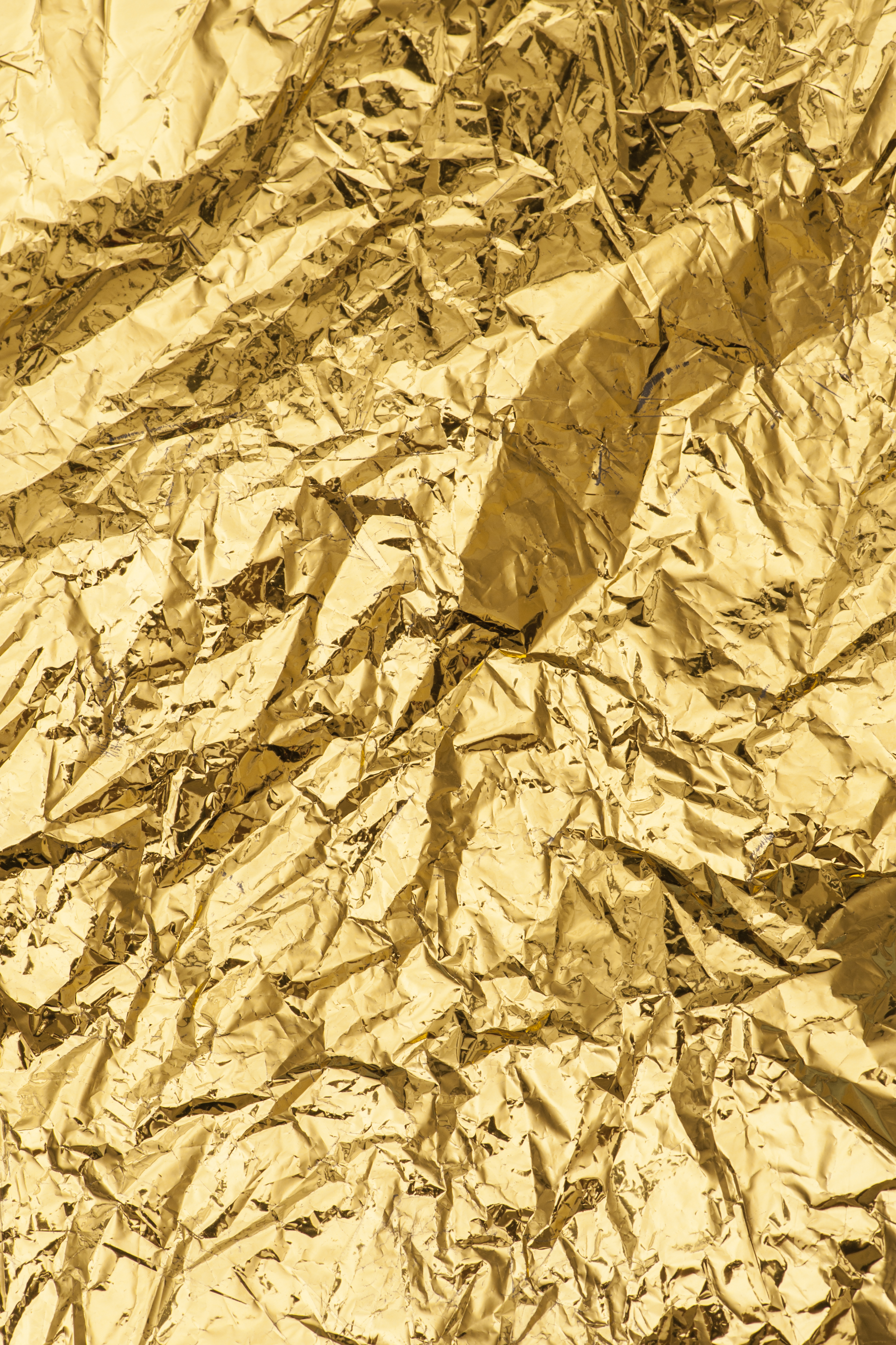 GOLD METALLIC TEXTURE